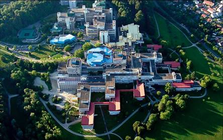 The campus from above